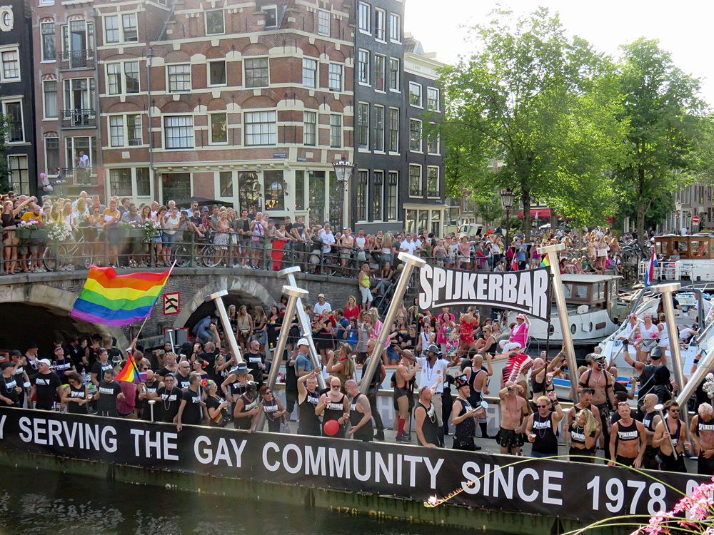 Boat of the gay bar Spijker, located at Kerkstraat 4 in Amsterdam, participating in the Canal Parade of Pride Amsterdam, August 4, 2018.